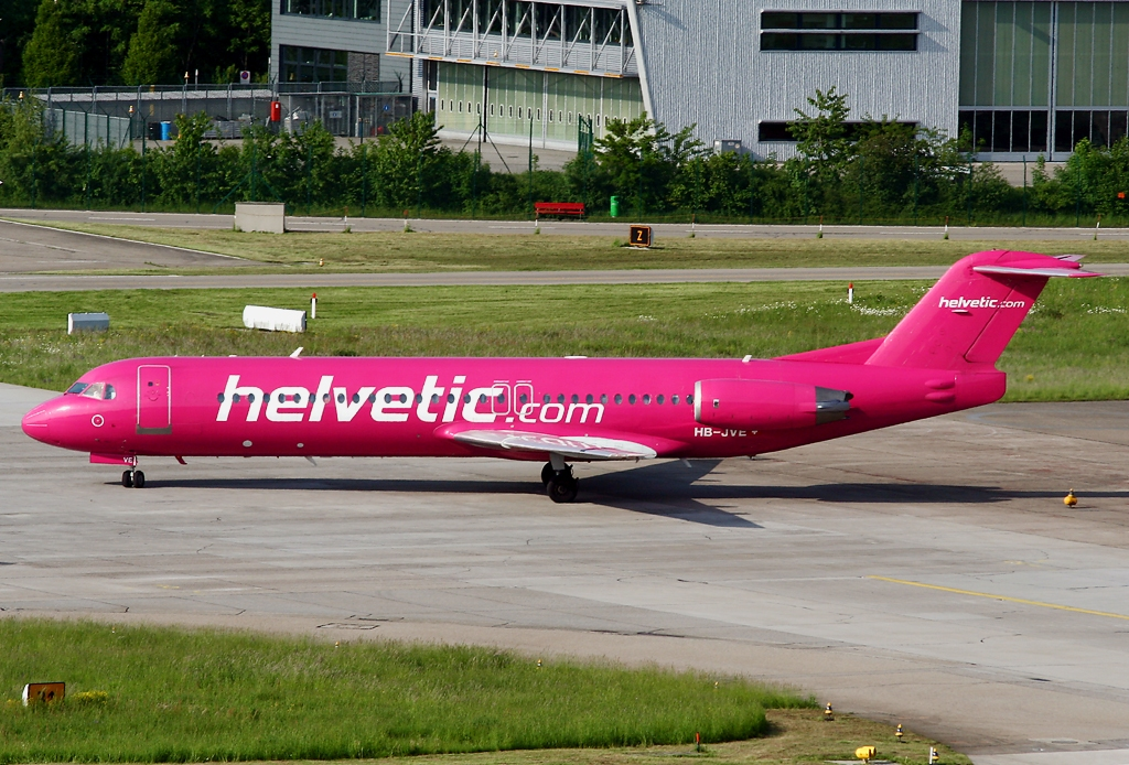 Helvetic Airways Fokker 100 HB-JVE at Zurich Airport